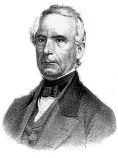 Wesley Newcomb (1818–1892) was an American Physician and malacologist specializing in land snails. He traveled to California and Hawaii, Europe, and elsewhere to collect and identify specimens, which became the collection of Cornell University.